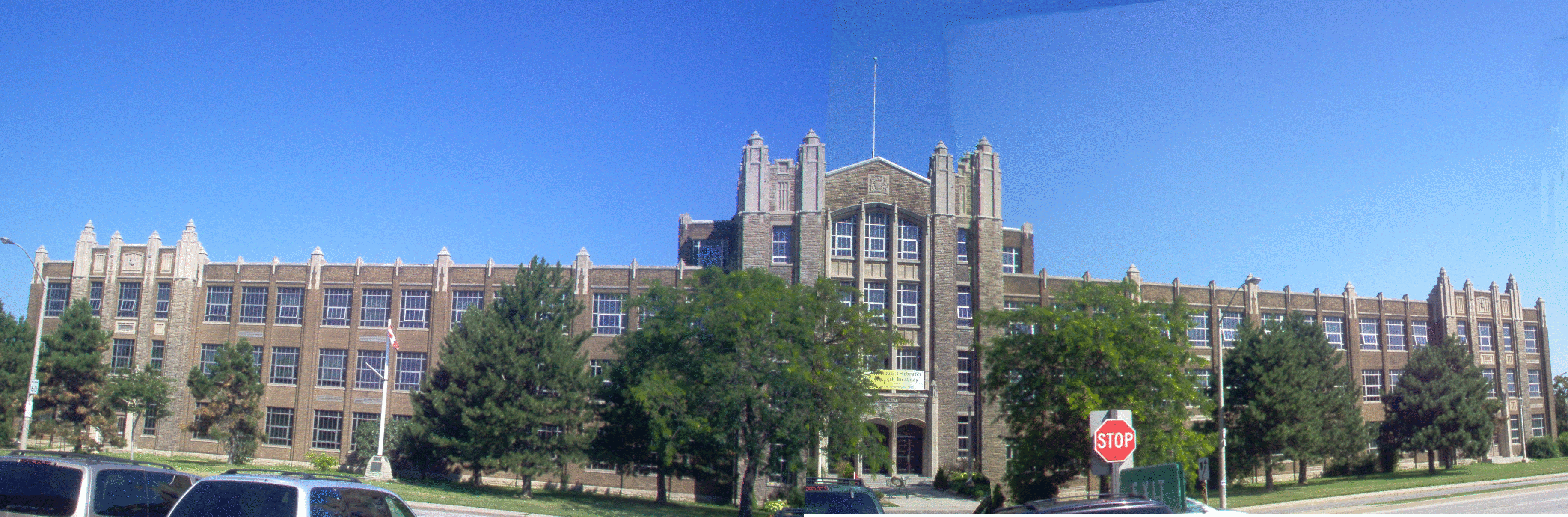 panorama of Westdale Secondary School. Taken as 3 pictures and put together in the GIMP 2 by myself